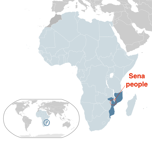 Sena people are an ethnic group found in northwestern Mozambique (shaded deeper blue), southern tip of Malawi and eastern edge of Zimbabwe. This image is a derivative work of the following image found in wikimedia under creative commons license: File:Location Mozambique AU Africa.svg